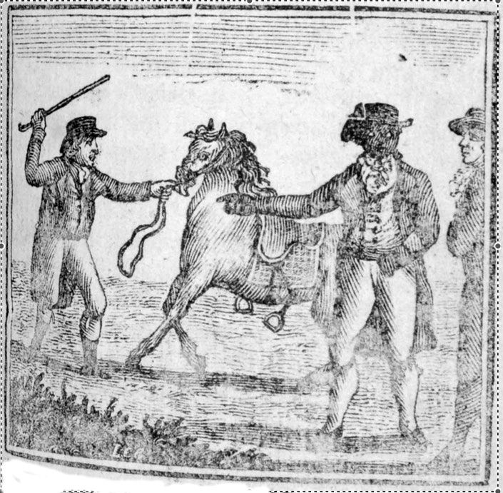 An illustration of John Naimbanna berating a man in England for beating his horse